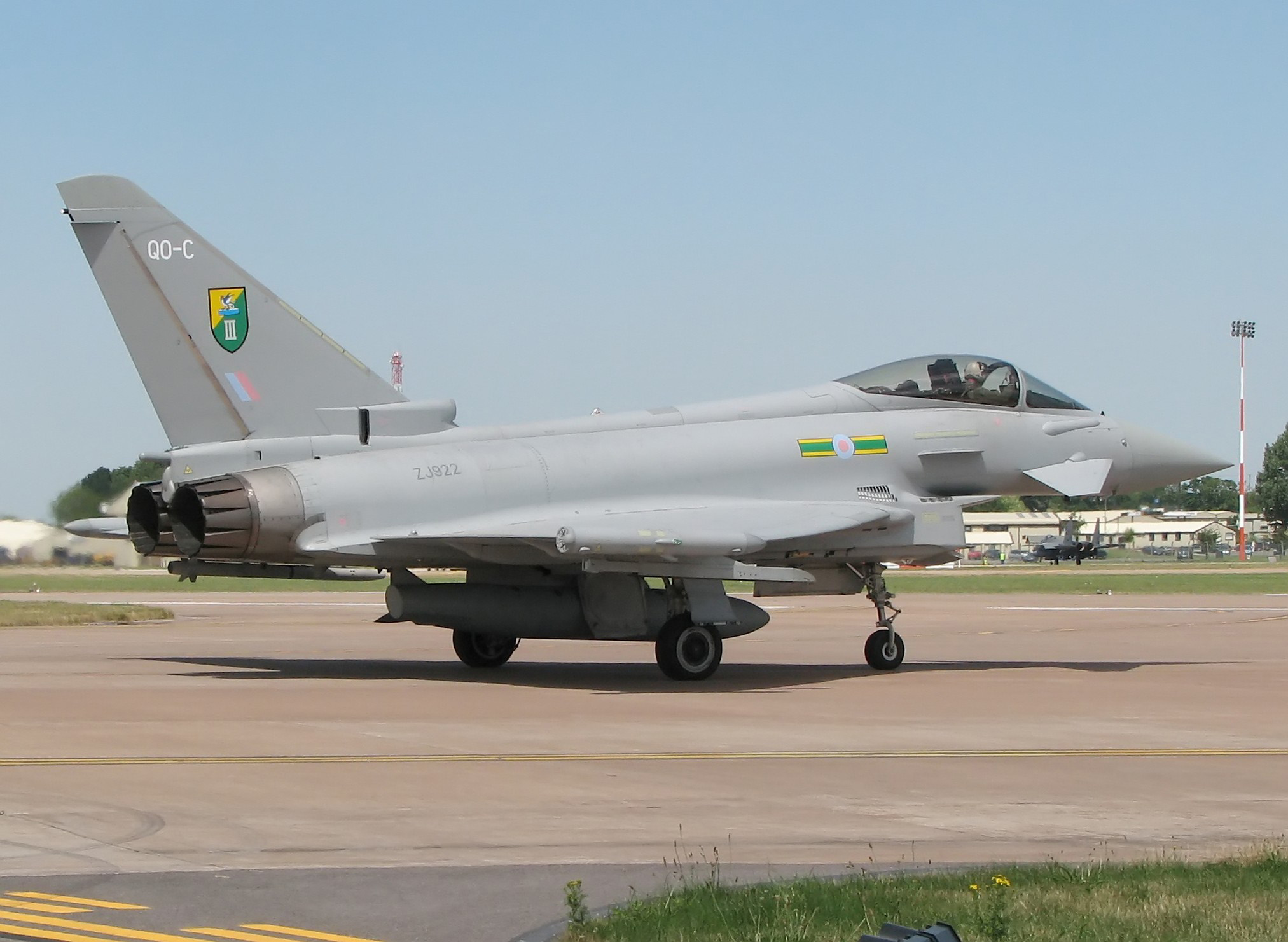 RAF Typhoon F2 (ZJ922) taxiing for takeoff at the Royal International Air Tattoo, Fairford, Gloucestershire, England. Photographed by Adrian Pingstone on July 17th 2006 and released to the public domain.